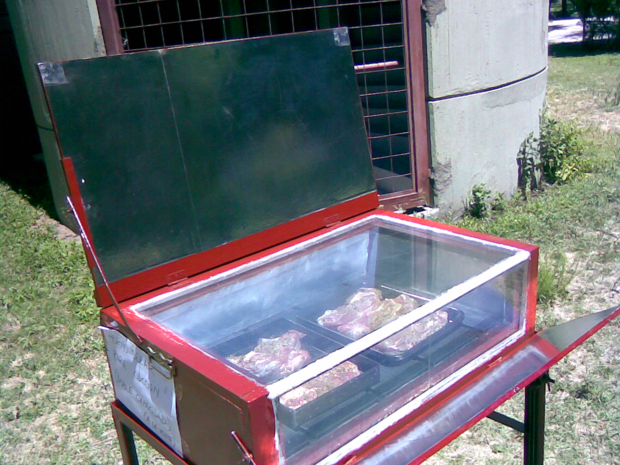 Solar cooker type box double capacity built in Mendoza, Argentina.